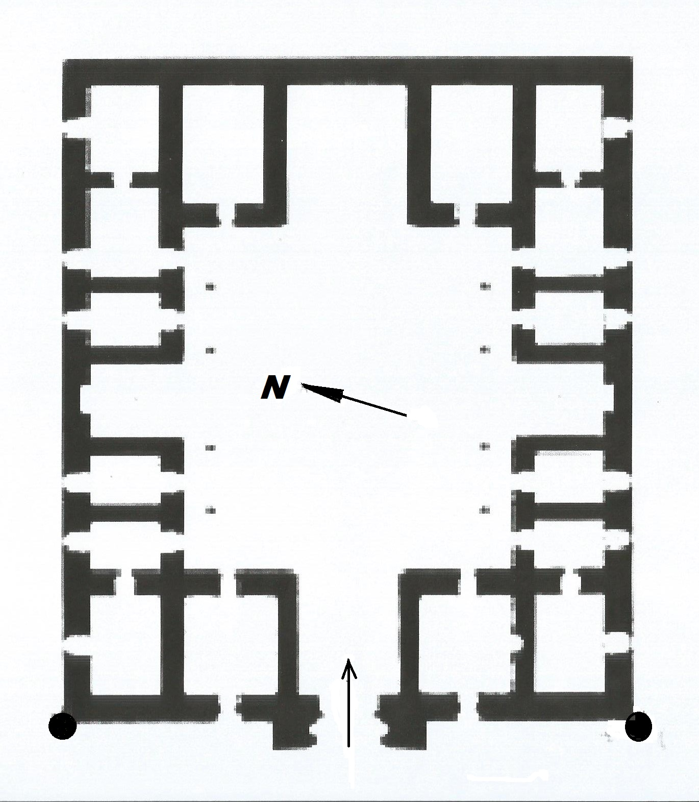 Floor plan of Buruciye Medrese in in Sivasü Turkey